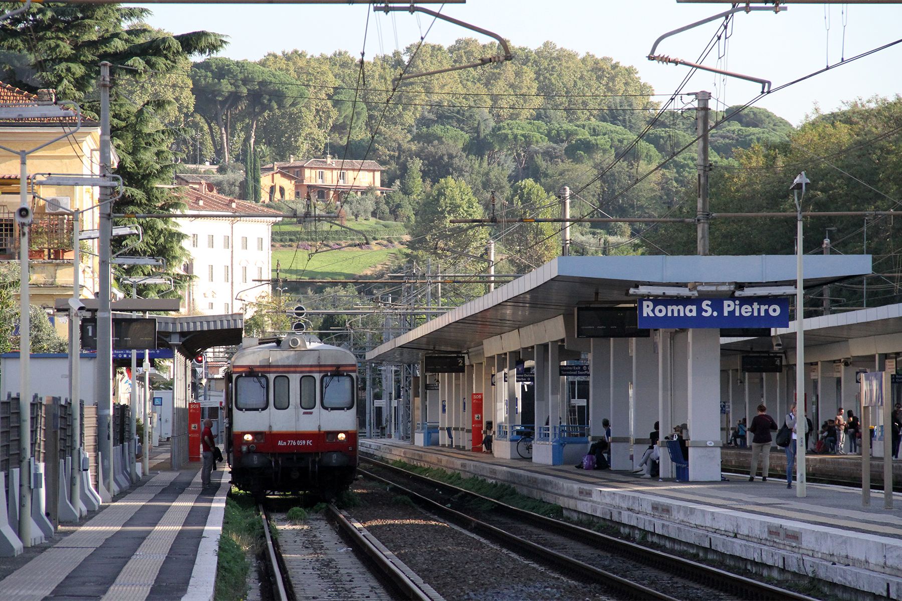 Roma Express service train "Circo Massimo" at Roma San Pietro railway station. Train Aln 776 059 FC, operated by Seatrain.